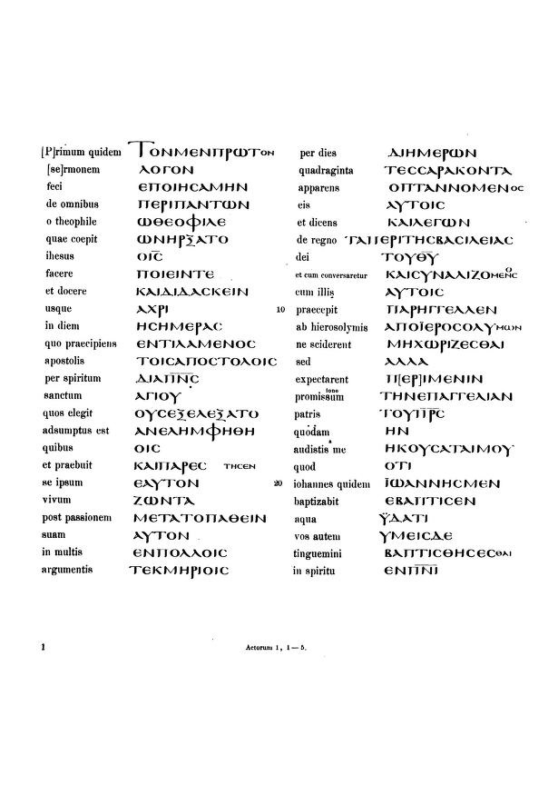 Tischendorf's facsimile of Codex Laudianus from 1870 with the Text of the Book of Acts 1:1-5 (Konstantin von Tischendorf: Monumenta sacra) T. IX. Leipzig: 1870, p. 1.